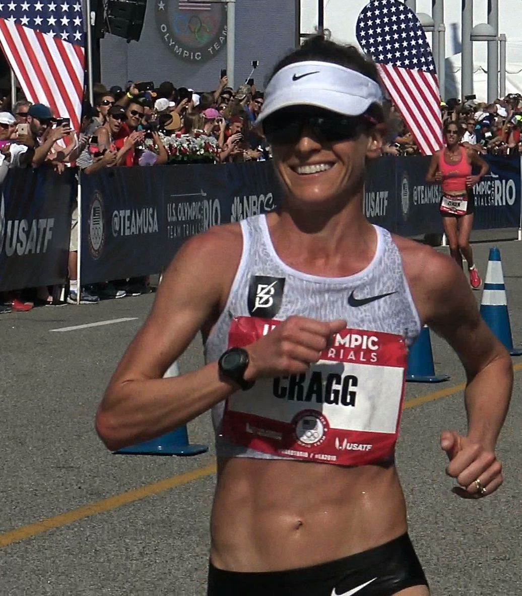 Amy Cragg winning the the 2016 U.S. Olympic Trials Marathon